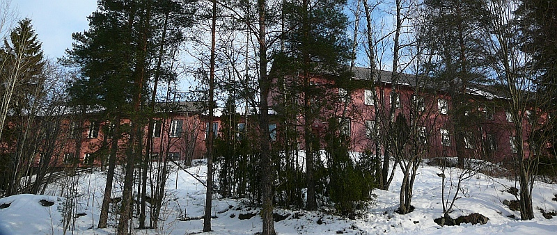 The Lugnet at Espoo.